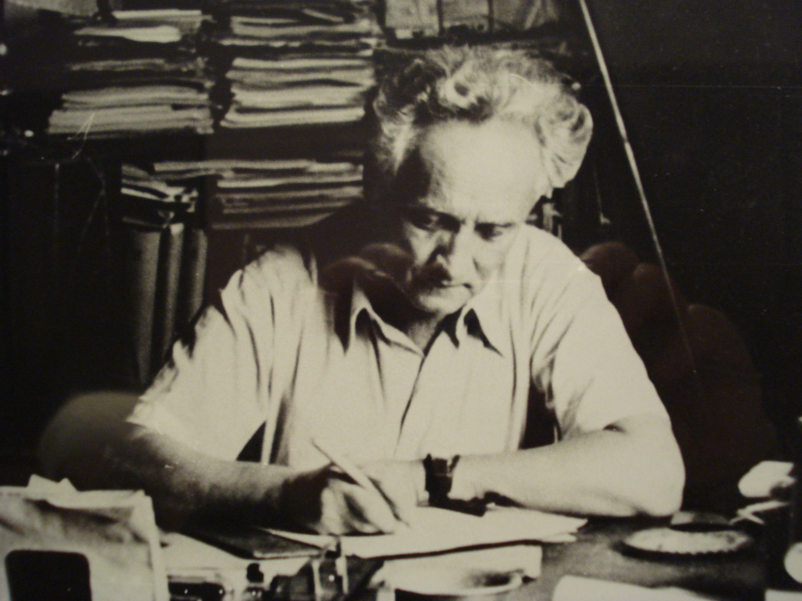 Josip Štolcer–Slavenski (1896-1955), Croatian composer, born in Čakovec